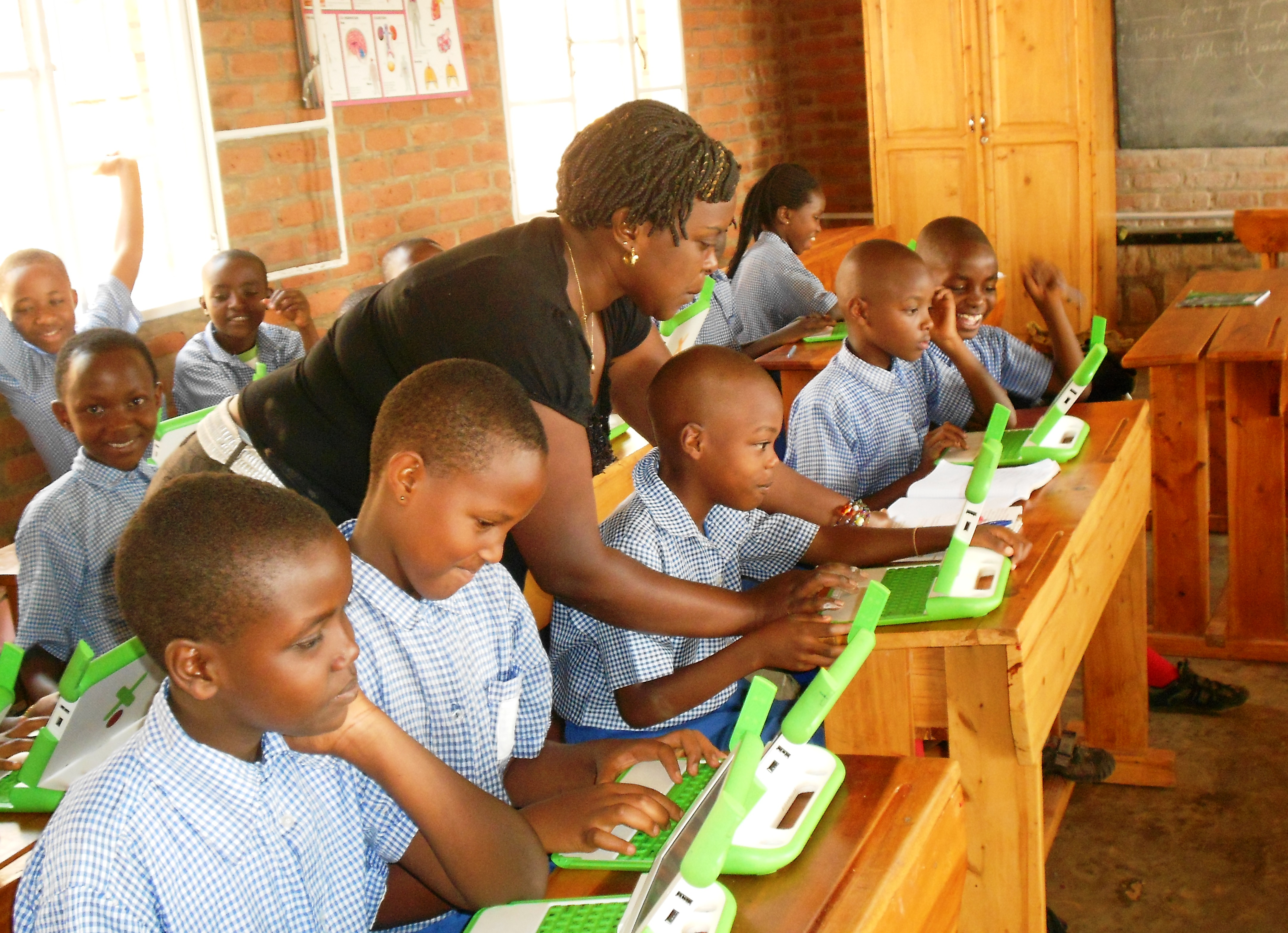 OLPC classroom teaching at Ecole Saint Jacob in Rwanda